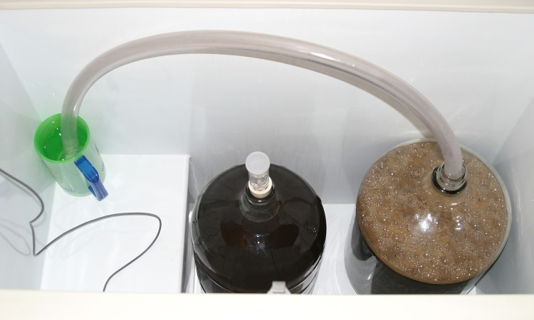 A temperature-controlled chest-freezer containing two carboys of beer, the typical homebrew fermentation setup.